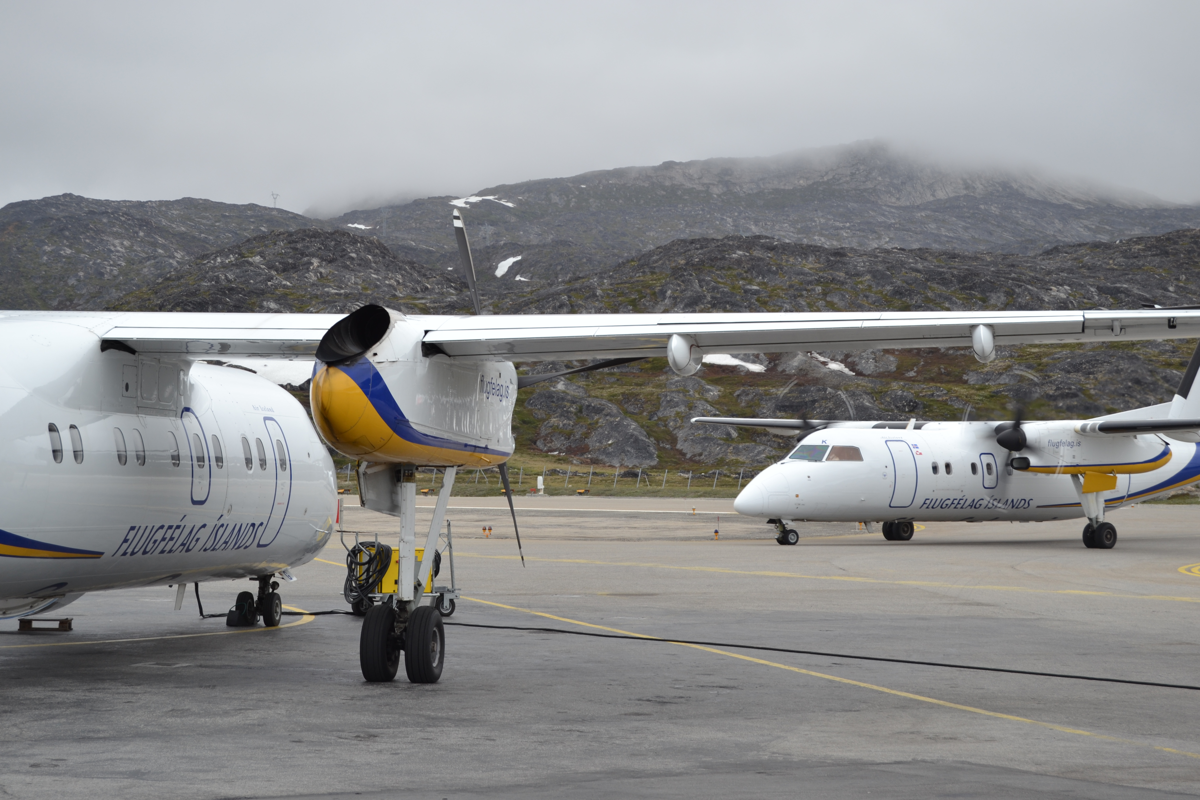 Air Iceland DHC-8-200 (TF-JMK and TF-JMG) at Ilulissat Airport